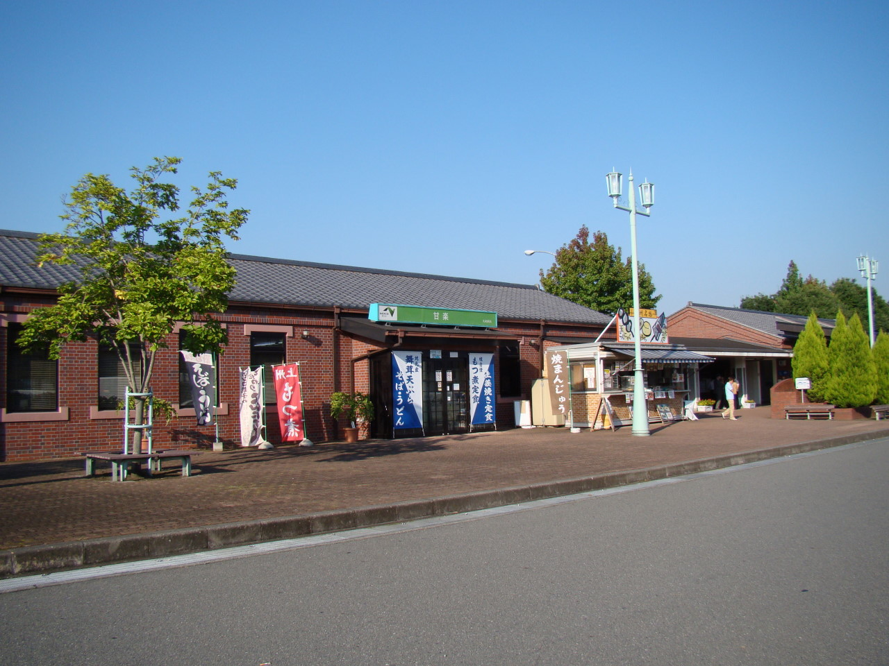 Jpshin-etsu expressway Kanra parking area Fujioka side Gunma Japan